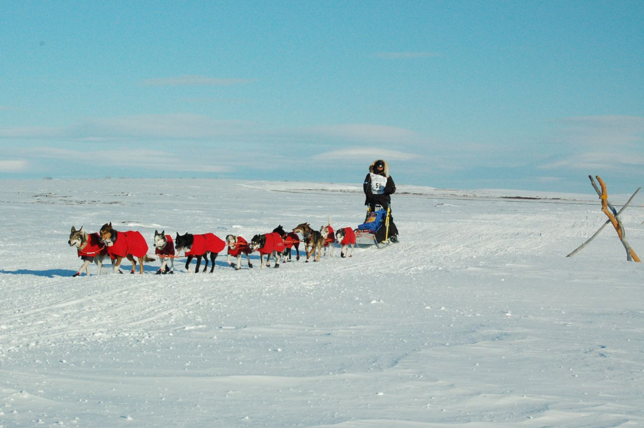 Original caption states "This is at Farley's camp, about 3 miles east of the Nome finish line." Musher identified in Flickr tags and photostream as Norwegian Robert Sørlie (Sorlie) in the 2007 Iditarod sled dog race.